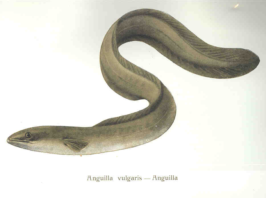 Subject: Anguilla anguilla Tag: Fish